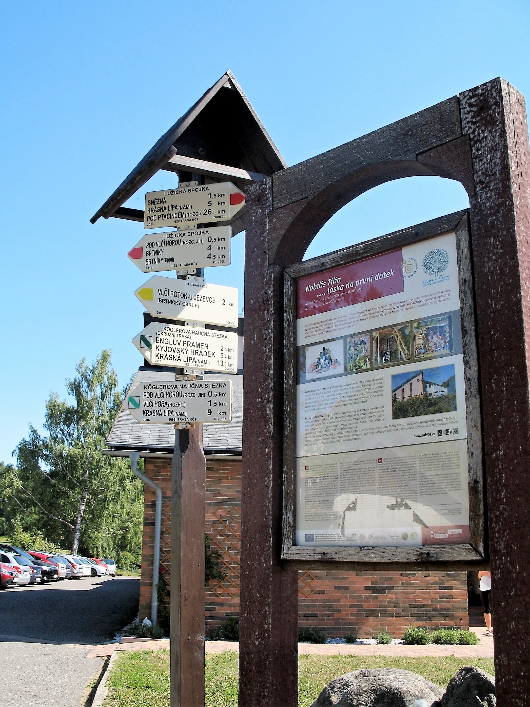 Buildings of company Nobilis Tilia in Vlčí Hora, Northern Bohemia, Czech Republic